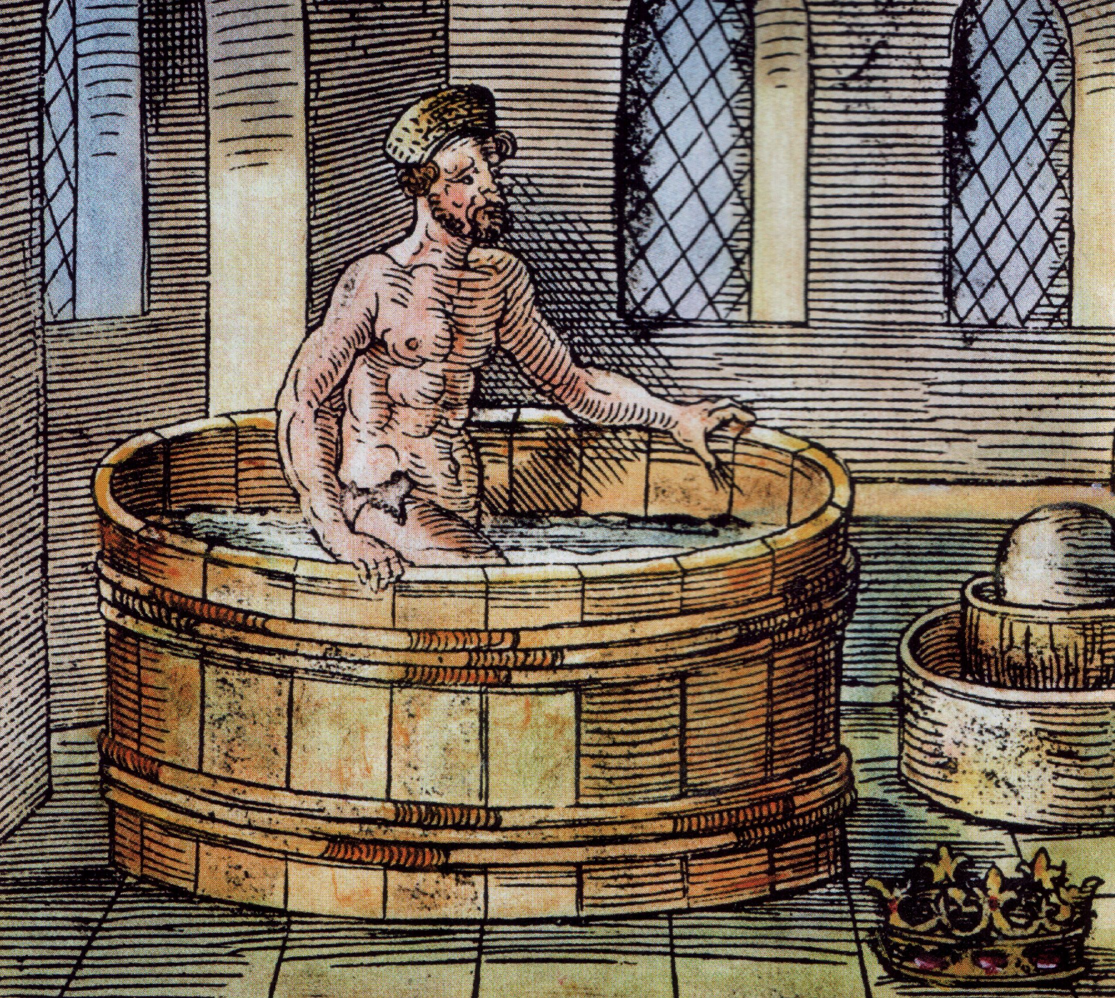 Greek philosopher Archimedes in his bath - 16th Century carving.